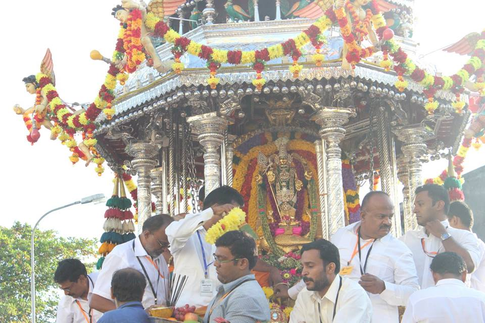 Festival